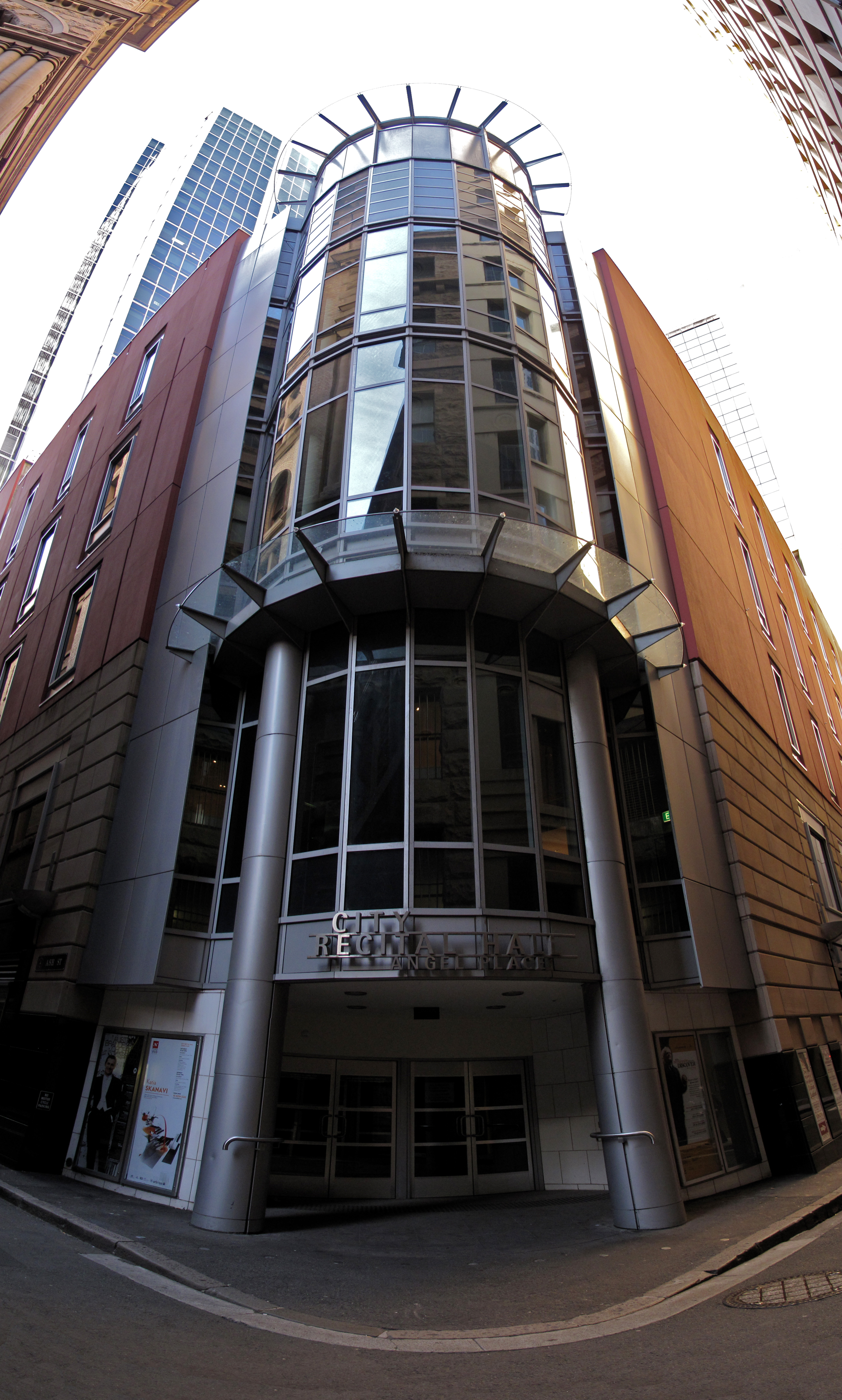 City Recital Hall, or City Recital Hall Angel Place, in Sydney, New South Wales, Australia